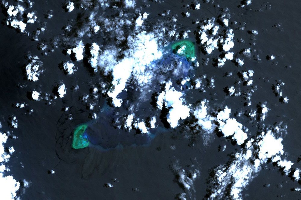 natural color satellite image of North Danger Reef, northern Spratly Islands, South China Sea (Landsat 7: Path 120 Row 52)